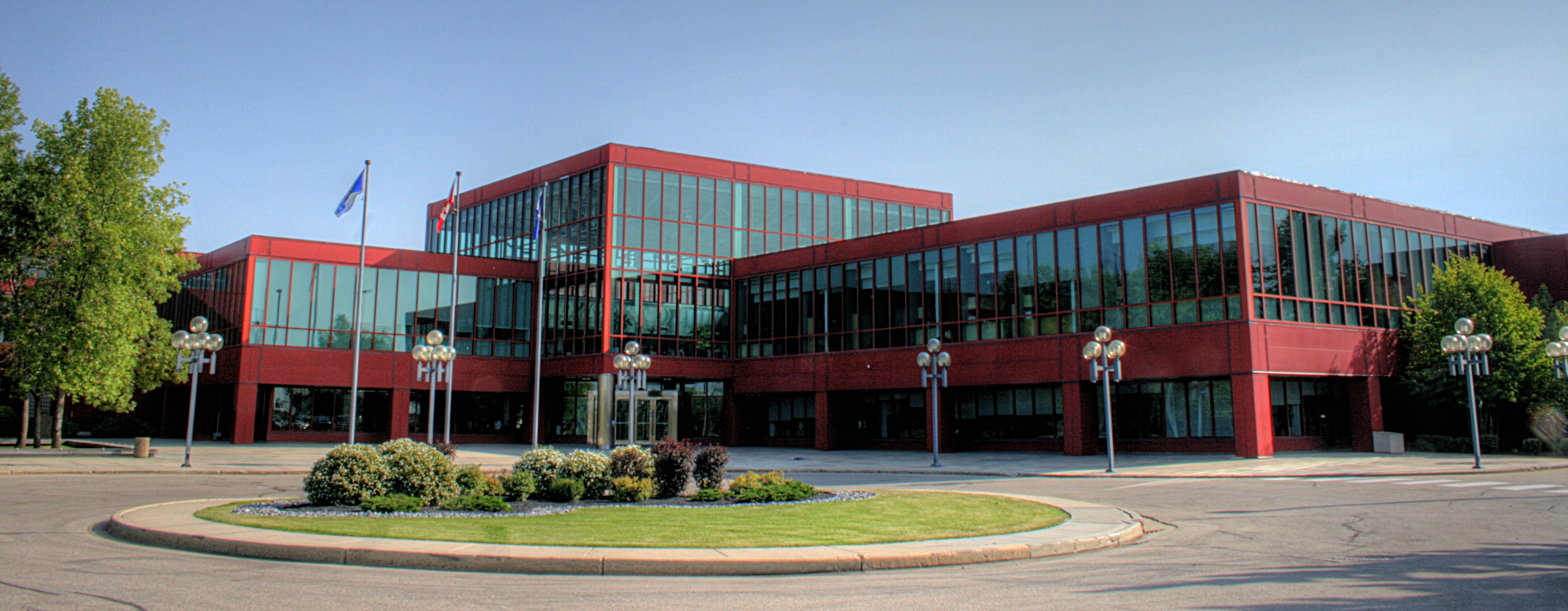 Main entry to Alberta Research Council complex in Edmonton, Alberta, Canada.